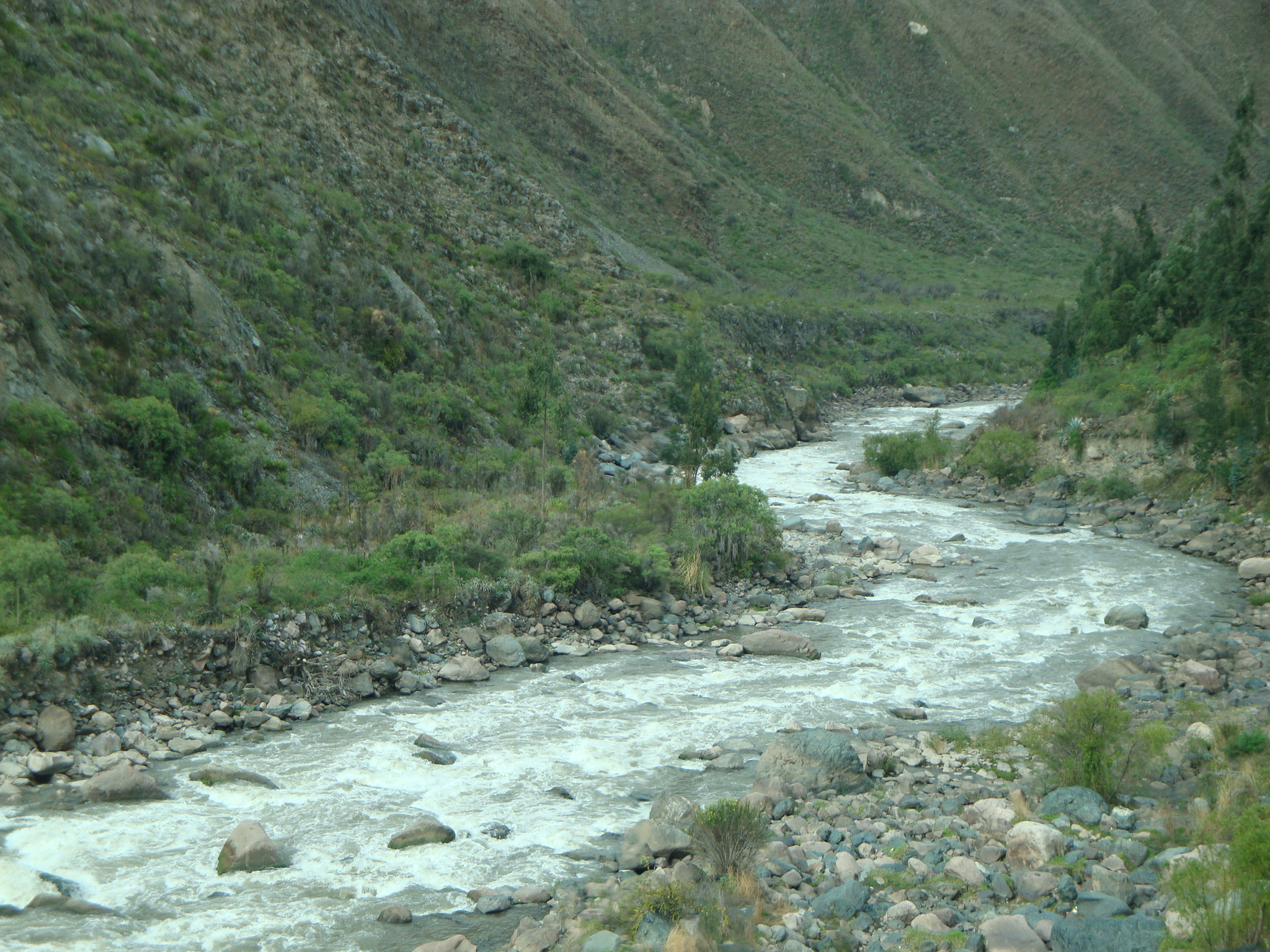 Urubamba river - Peru